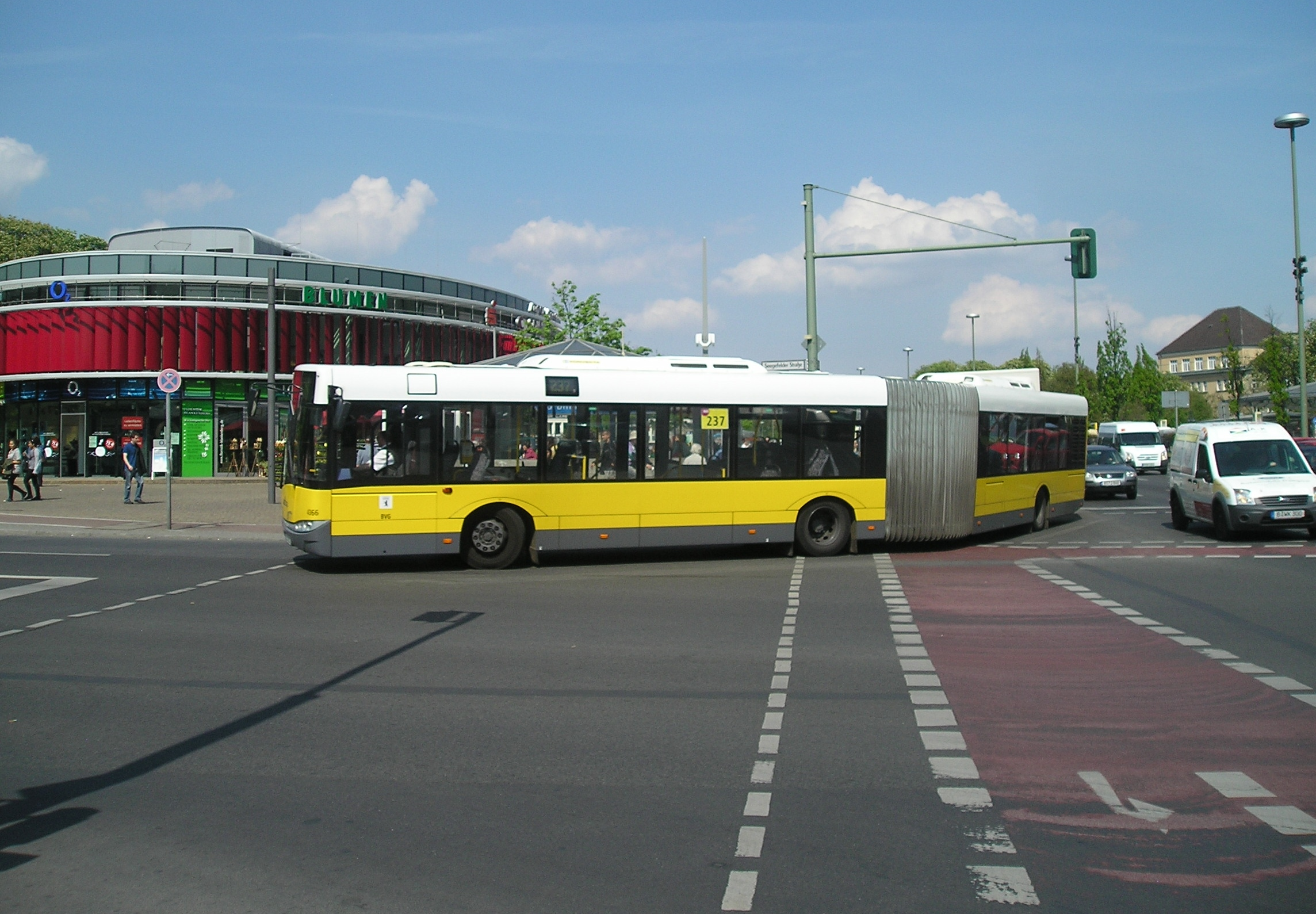 BVG bus line 237 at the corner of Altstädter Ring and Seegefelder Straße near Bahnhof Berlin-Spandau and the townhall of Spandau.